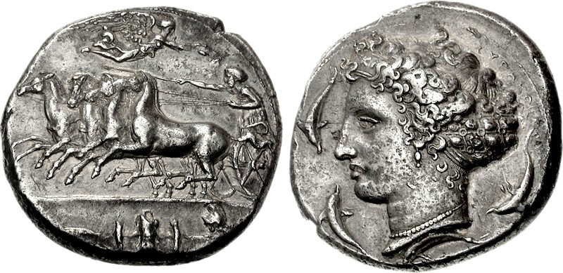 Sicilia, Syracusae. Dionysios I. 405-367 BC. AR Dekadrachm (42.19 g, 3h). Reverse die signed by Kimon. Struck circa 405-400 BC. Charioteer driving fast quadriga left, holding kentron and reins; above, Nike flying right, crowning charioteer; below heavy exergual line, military harness, shield, greaves, cuirass, and Attic helmet, all connected by horizontal spear; AΘΛA below Head of Arethusa left, wearing single-pendant earring and necklace, KI on ampyx, hair restrained at the back of her head in an open-weave sakkos; four dolphins around. Clear signature of Kimon on ampyx.